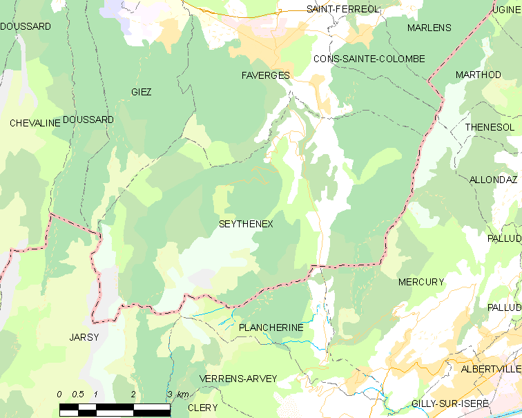 Map of French municipality Seythenex